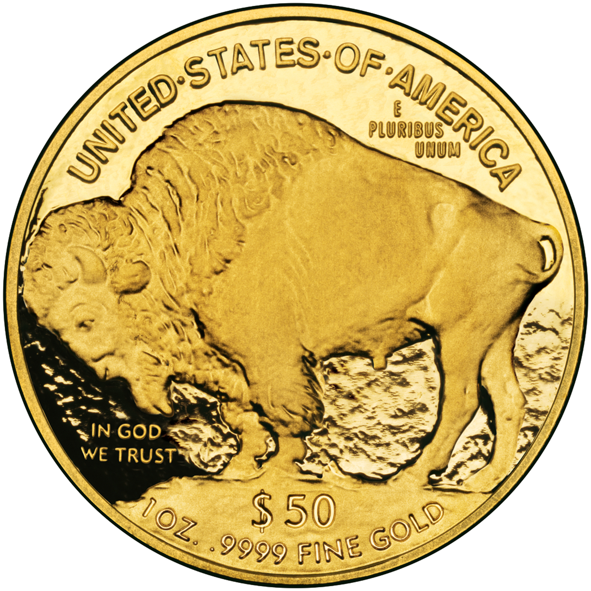 This is the Proof version on the American Buffalo gold bullion coin. Like all US Mint images, this image is in the public domain as a work of the US government.